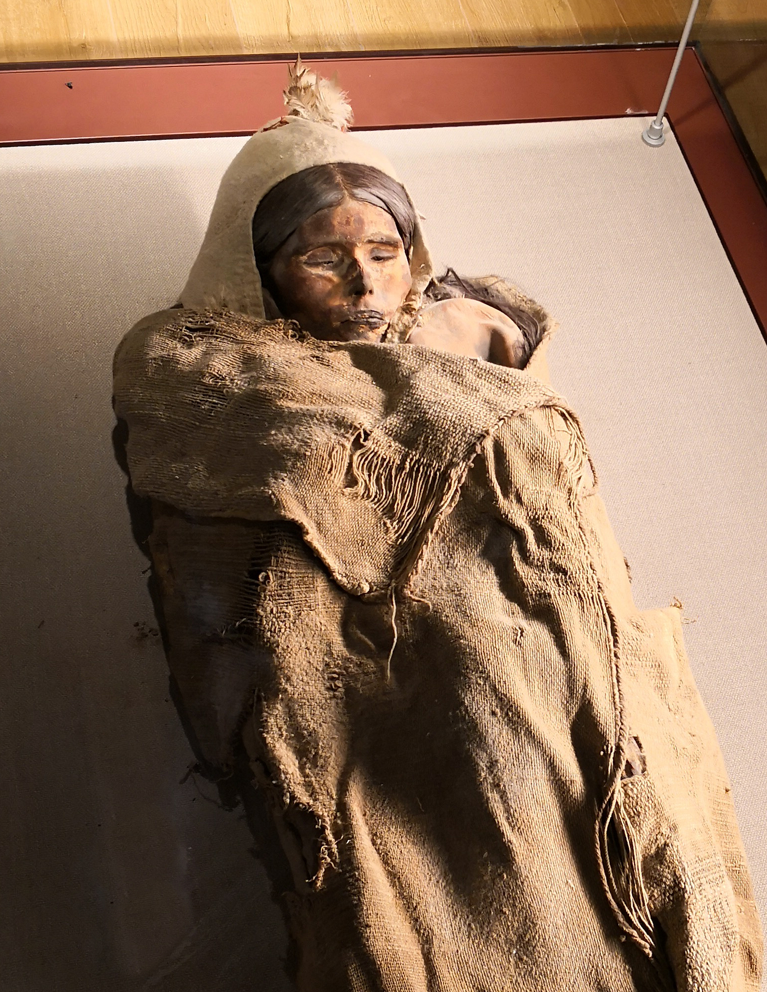 Loulan beauty closeup